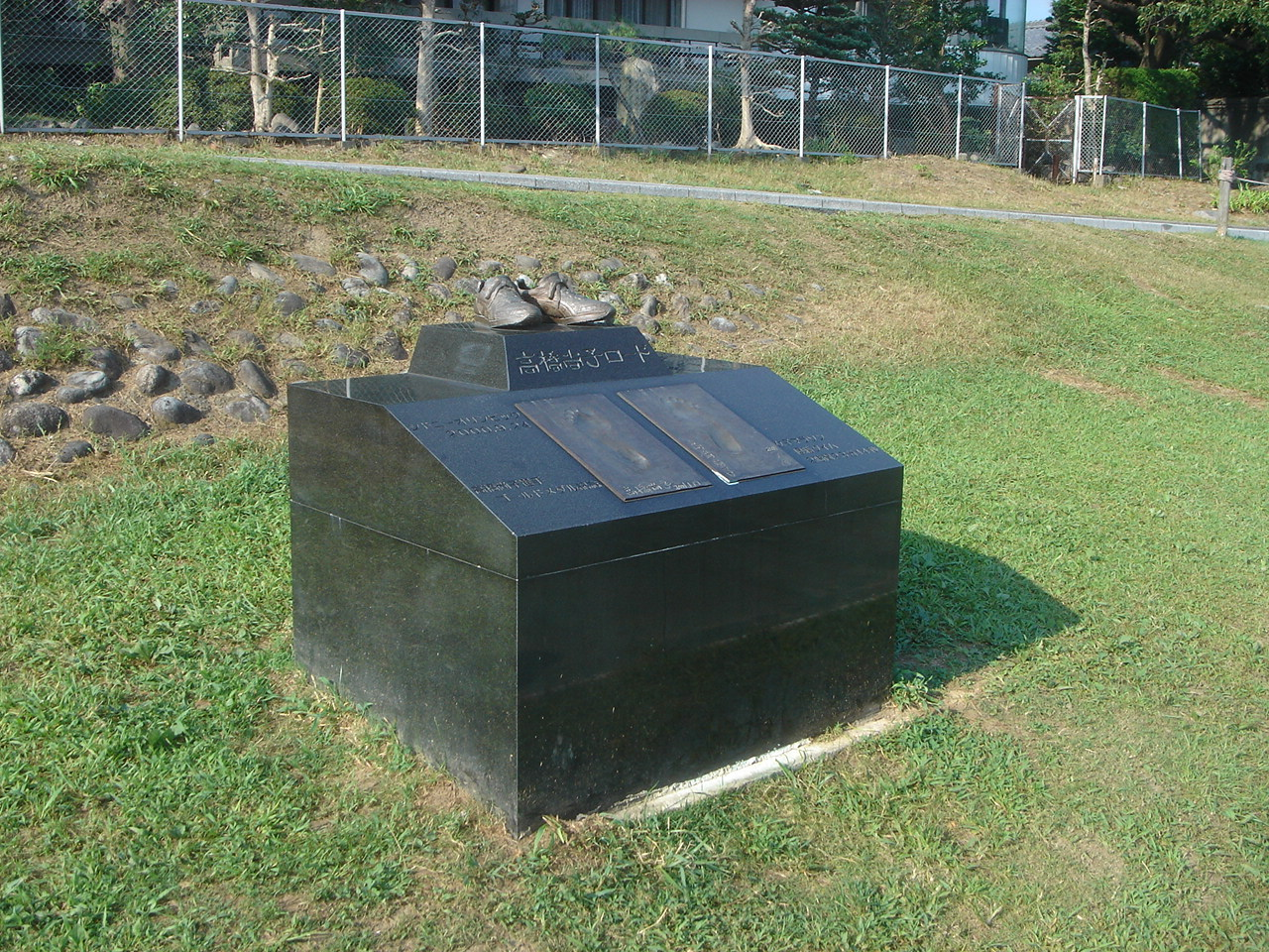 the Naoko Takahashi's Shoes Monument at the Takahashi Naoko Road along Nagara river.(高橋尚子ロードにある靴と足型のモニュメント),Gifu,Gifu,Japan(岐阜県岐阜市)で長良川の右岸河川敷で撮影。